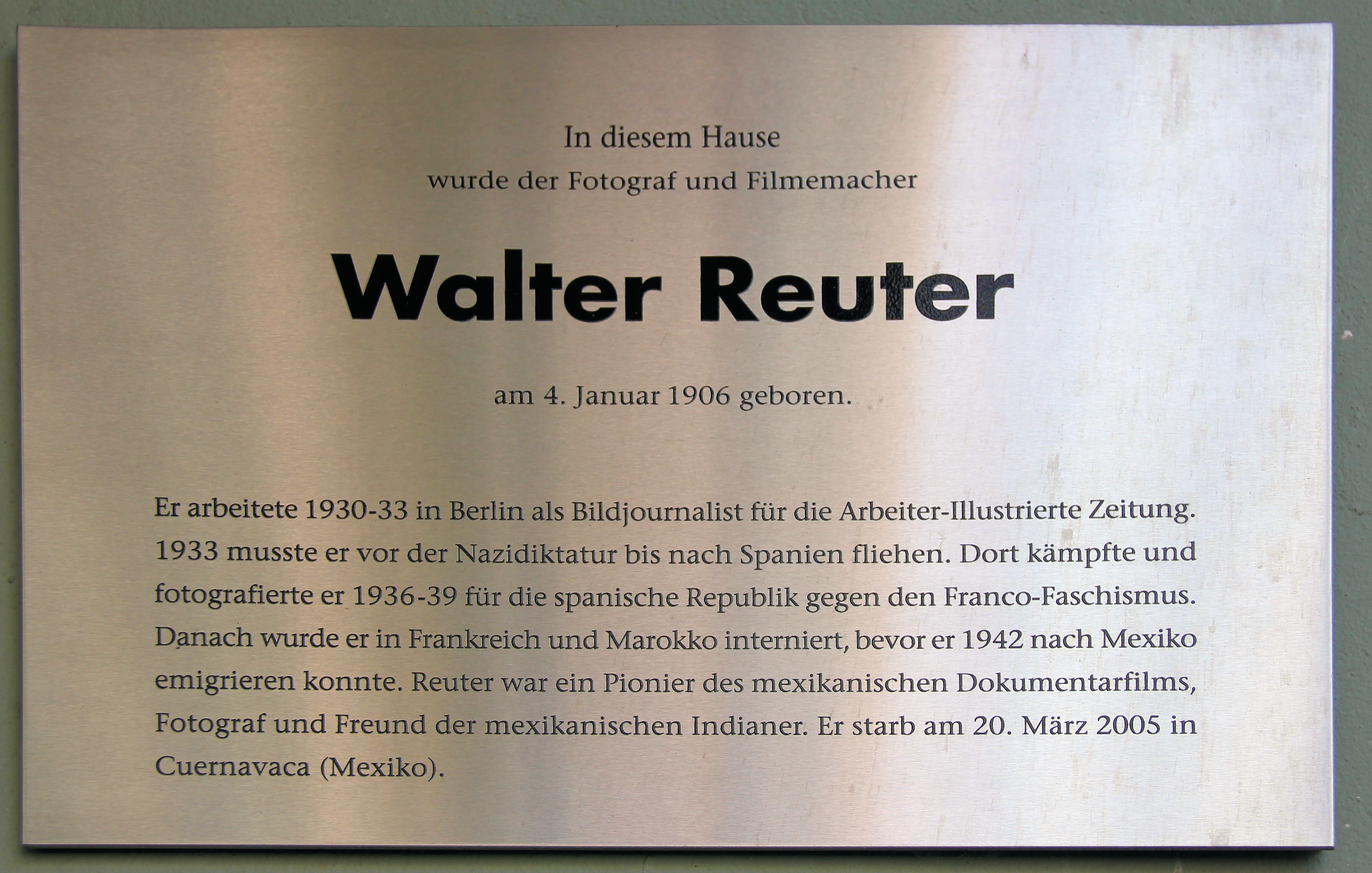 Memorial plaque, Walter Reuter, Seelingstraße 21, Berlin-Charlottenburg, Germany Koordinate:52°30′55″N 13°17′35″E / 52.51528°N 13.29306°E